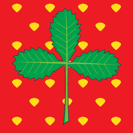 Flag of Jagodina municipality, Serbia